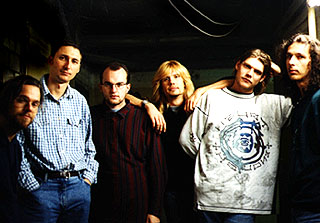 Karibow in 1997